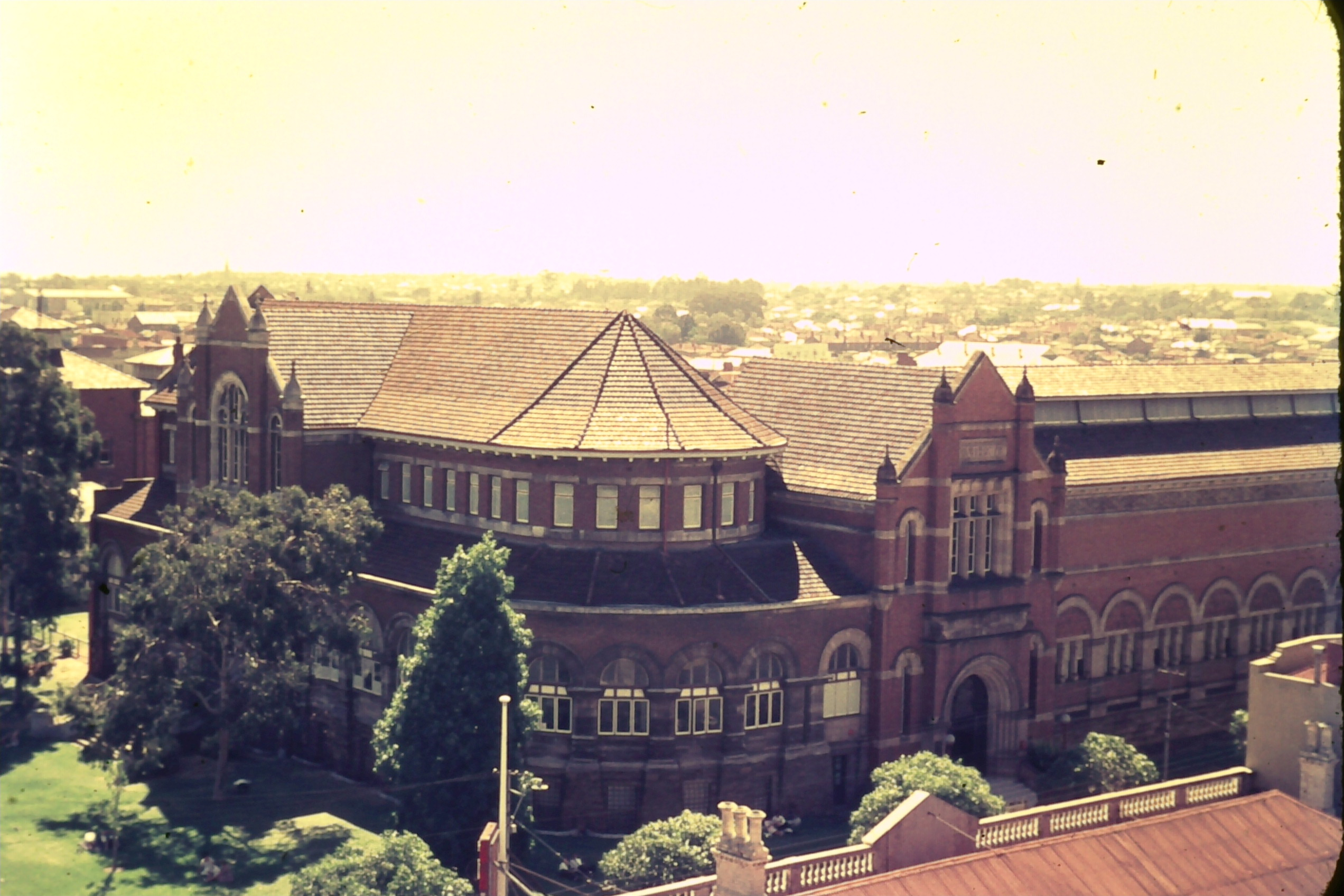 Western Australian Museum c1960